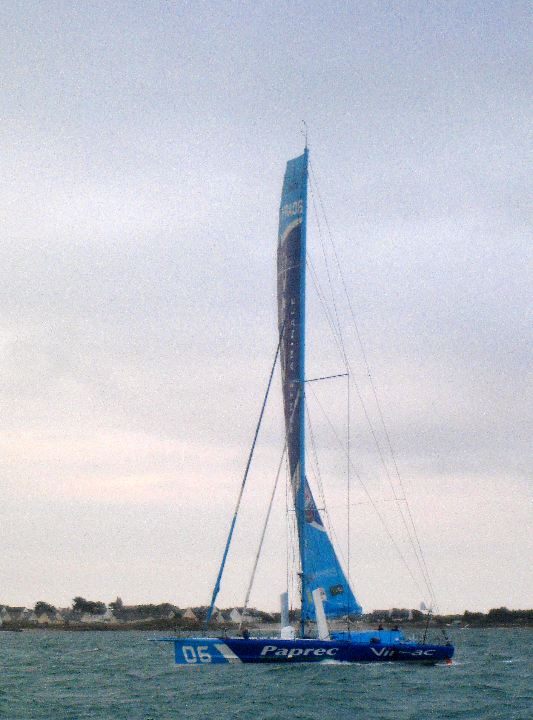 sold around 2009/2010 and renamed Estrella Damm (another previous name: W Hotels [1]). The monohull was designed by Farr Yacht Design and built by Southern Ocean Marine, New Zealand, launched in February 2007. Picture taken in the South of Brittany, possibly near La Forêt-Fouesnant